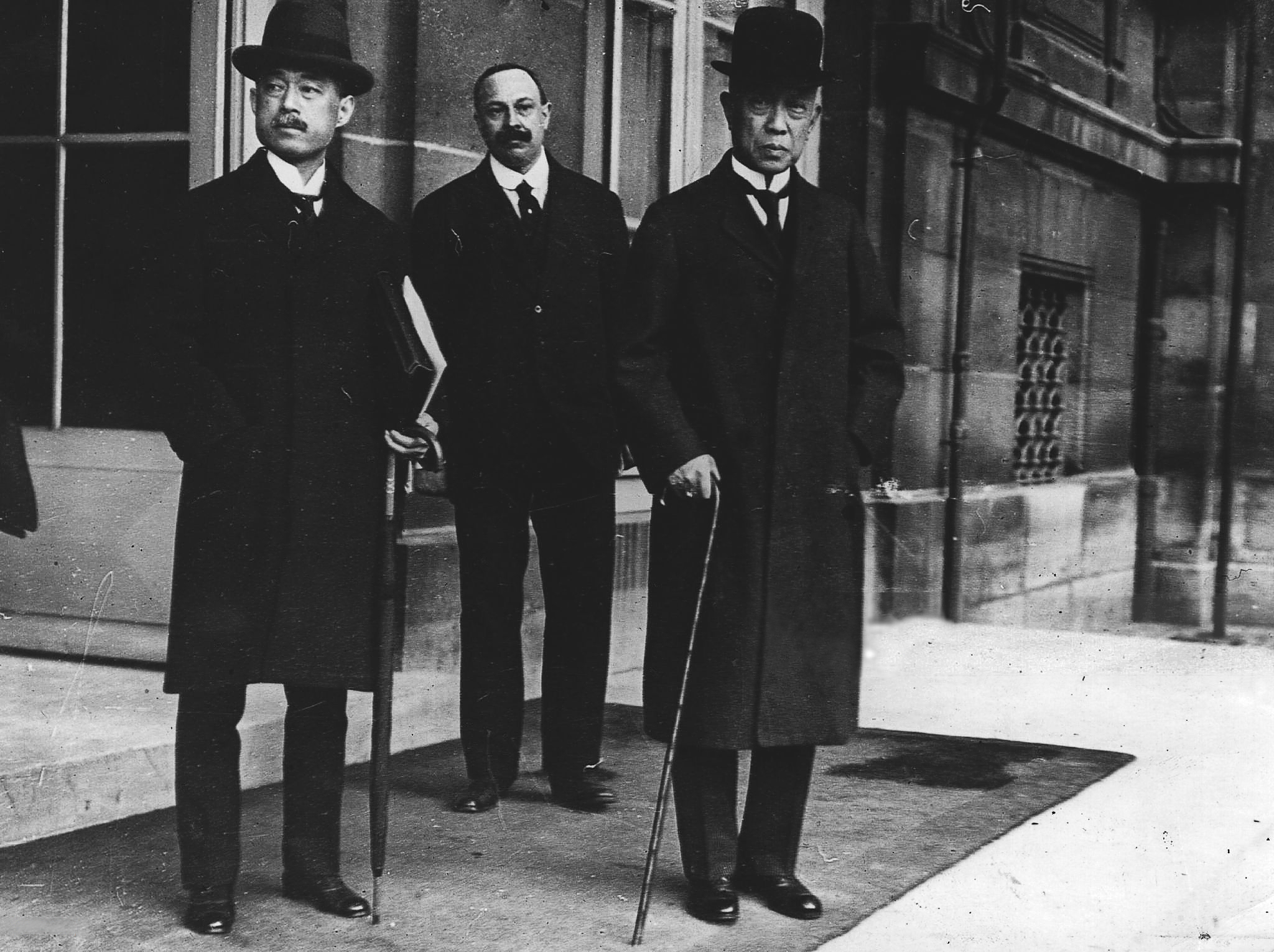 Japanese statesman Kinmochi Saionji (right) at the Paris Peace Conference in 1919.